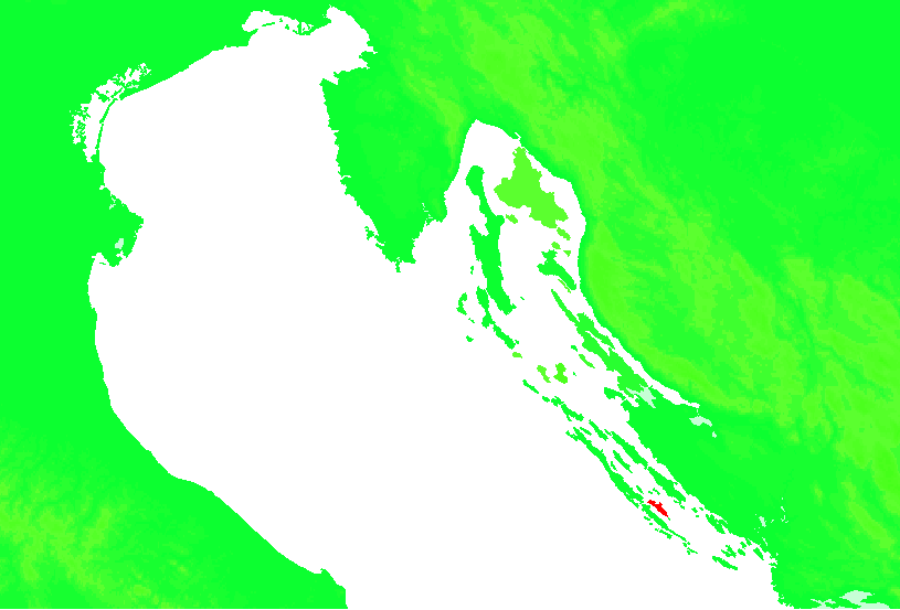 Island of Croatia Croatia - Zut.PNG